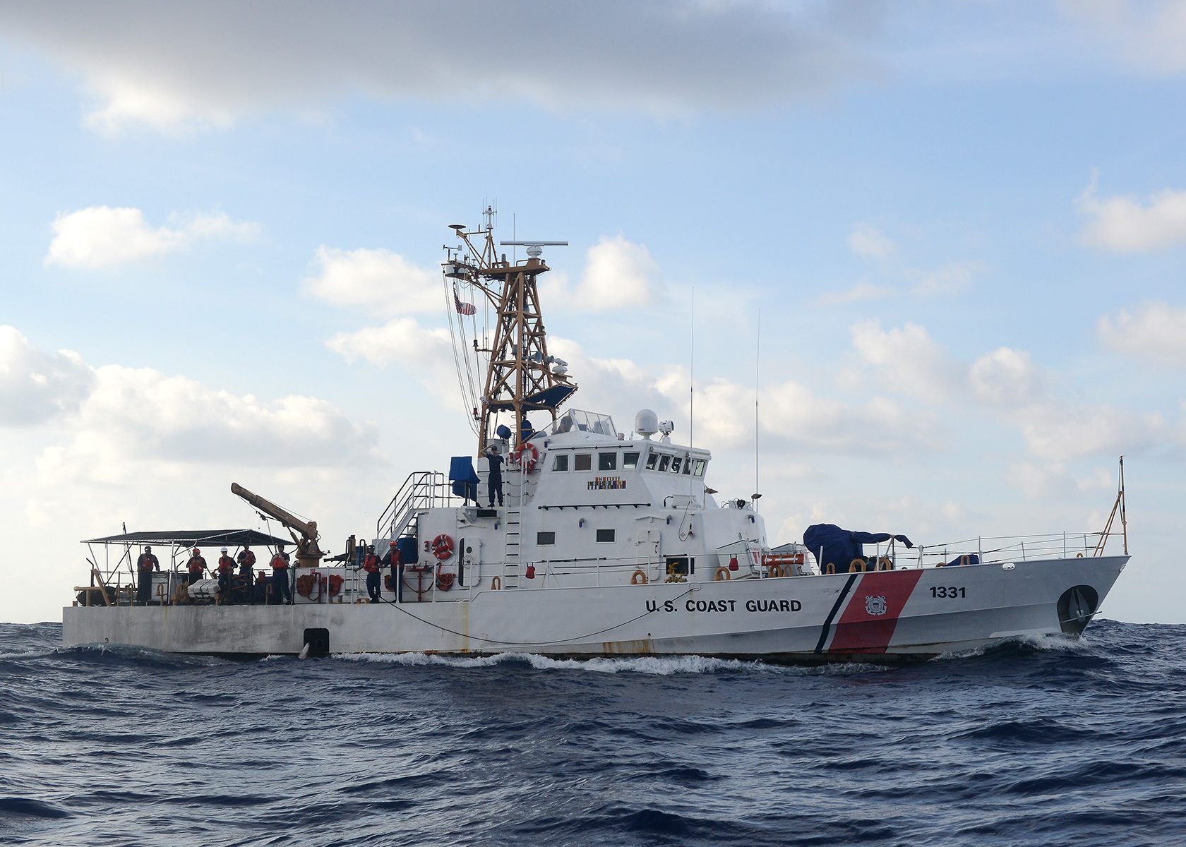 The crew of the Coast Guard Cutter Washington (WPB 1331) participates in Operation Kurukuru off Palau, Oct. 10, 2019. Operation Kurukuru is a Pacific Islands Forum Fisheries Agency (FFA) operation designed to detect and combat illegal, unregulated and unreported (IUU) fishing activities. (U.S. Coast Guard photo by Petty Officer 3rd Class Matthew West/Released)